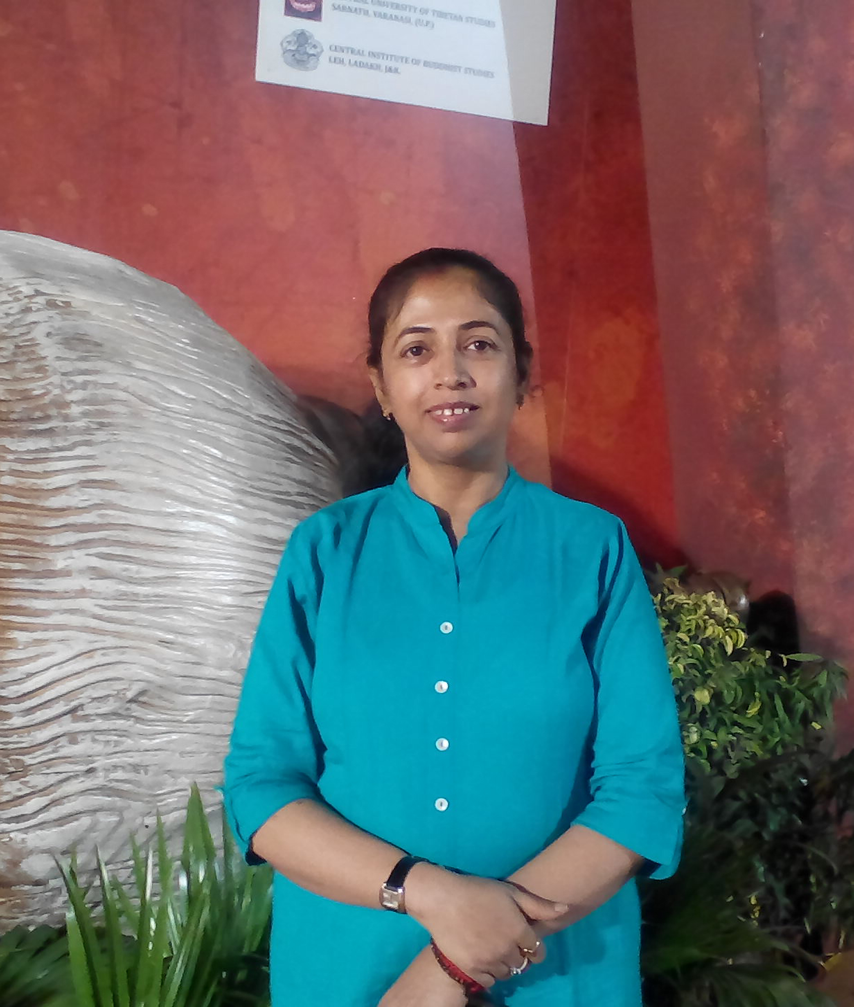 File photo of Ms Garima Sanjay